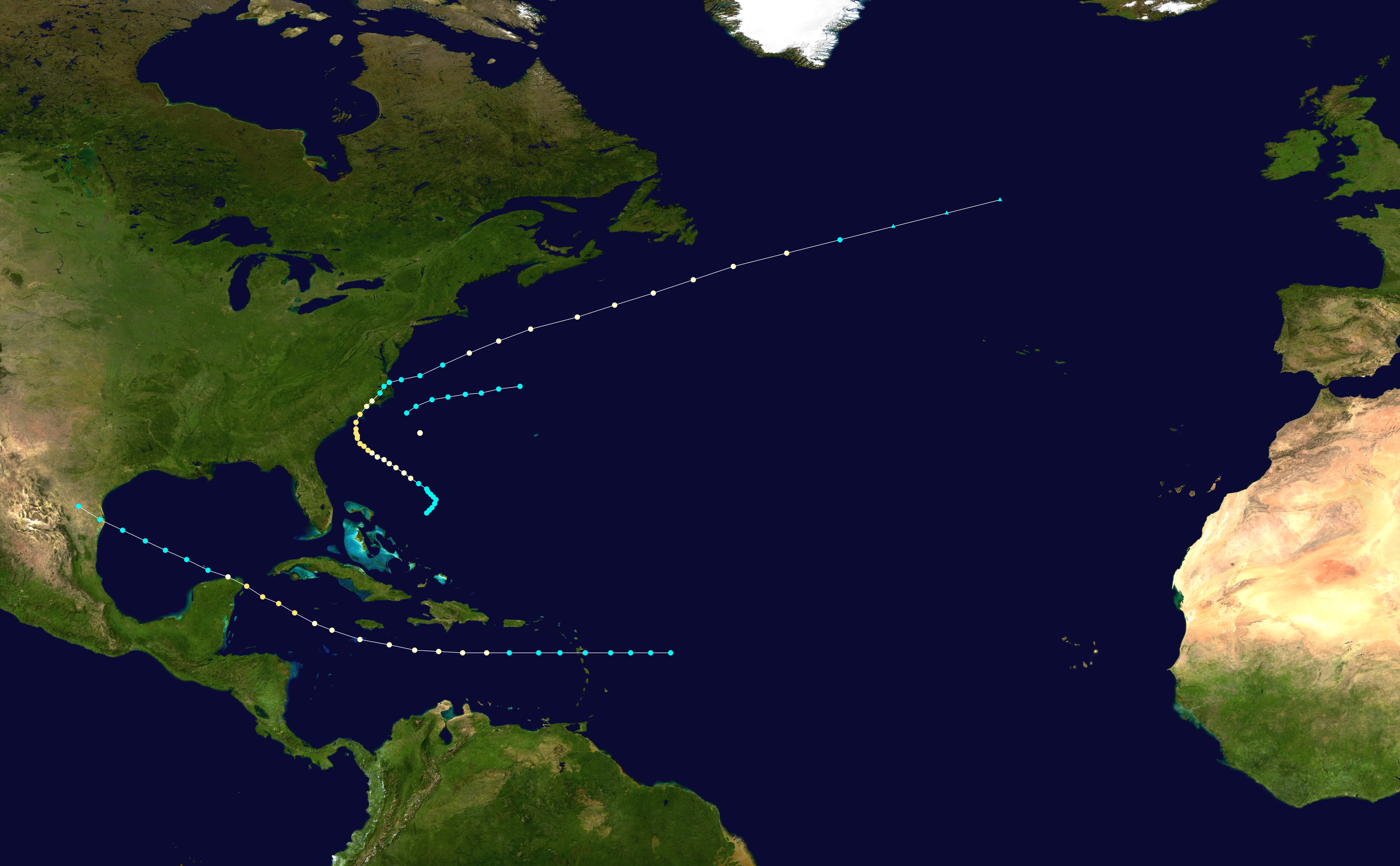 Track map of all storms of the 1857 Atlantic hurricane season. The points show the location of the storm at 6-hour intervals. The colour represents the storm's maximum sustained wind speeds as classified in the Saffir–Simpson scale (see below), and the shape of the data points represent the nature of the storm, according to the legend below. Saffir–Simpson scale Tropical depression≤38 mph≤62 km/h Category 3111–129 mph178–208 km/h Tropical storm39–73 mph63–118 km/h Category 4130–156 mph209–251 km/h Category 174–95 mph119–153 km/h Category 5≥157 mph≥252 km/h Category 296–110 mph154–177 km/h Unknown Storm typeTropical cycloneSubtropical cycloneExtratropical cyclone / Remnant low / Tropical disturbance